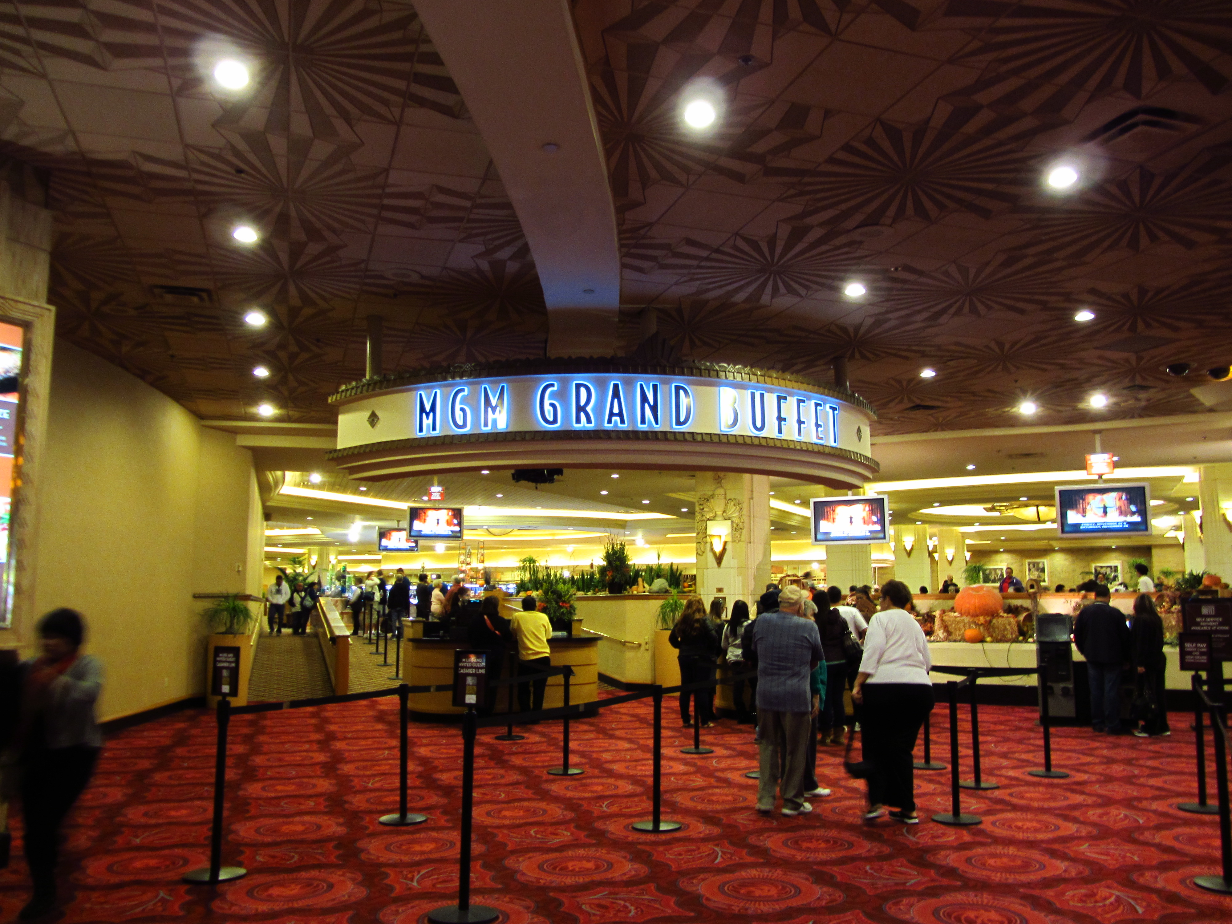 MGM Grand Buffet Entrance